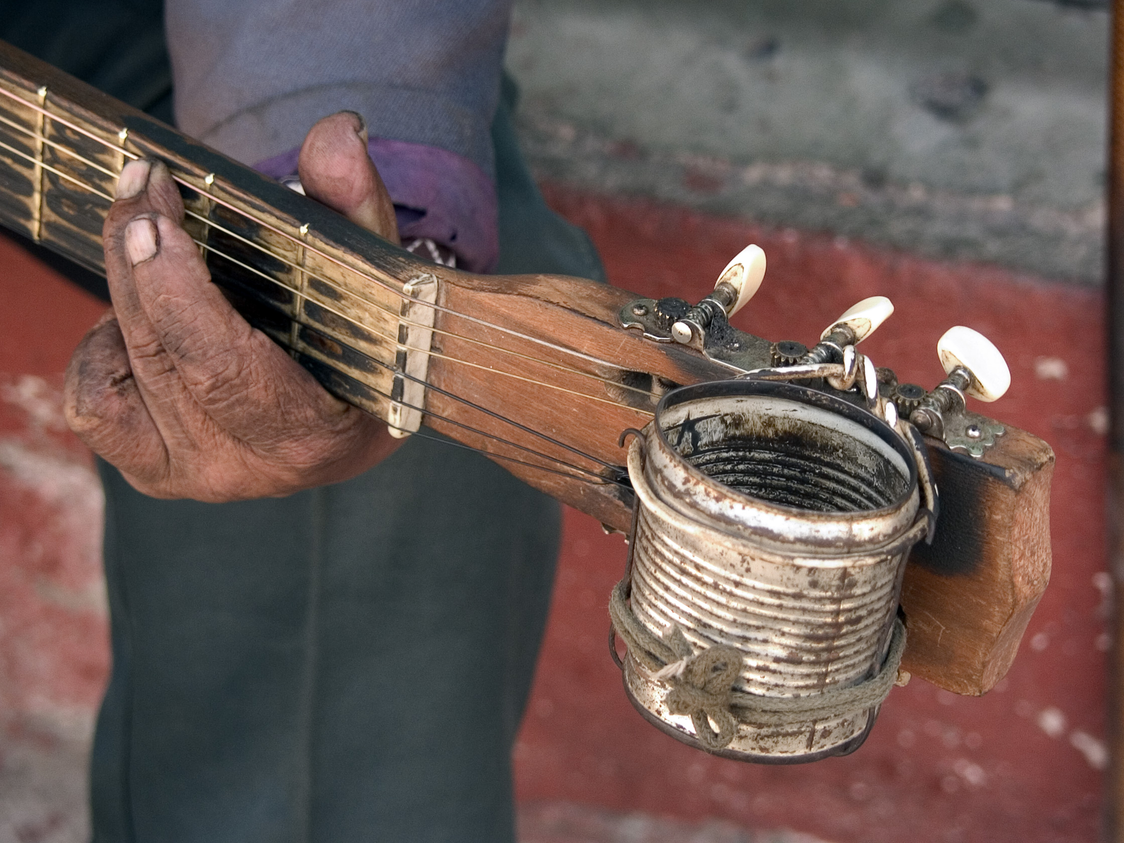 Street musician, Guanajuato, Mexico.